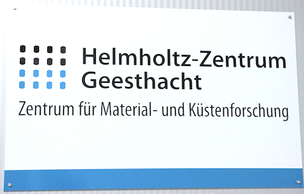 Logo of Helmholtz-Zentrum Geesthacht.